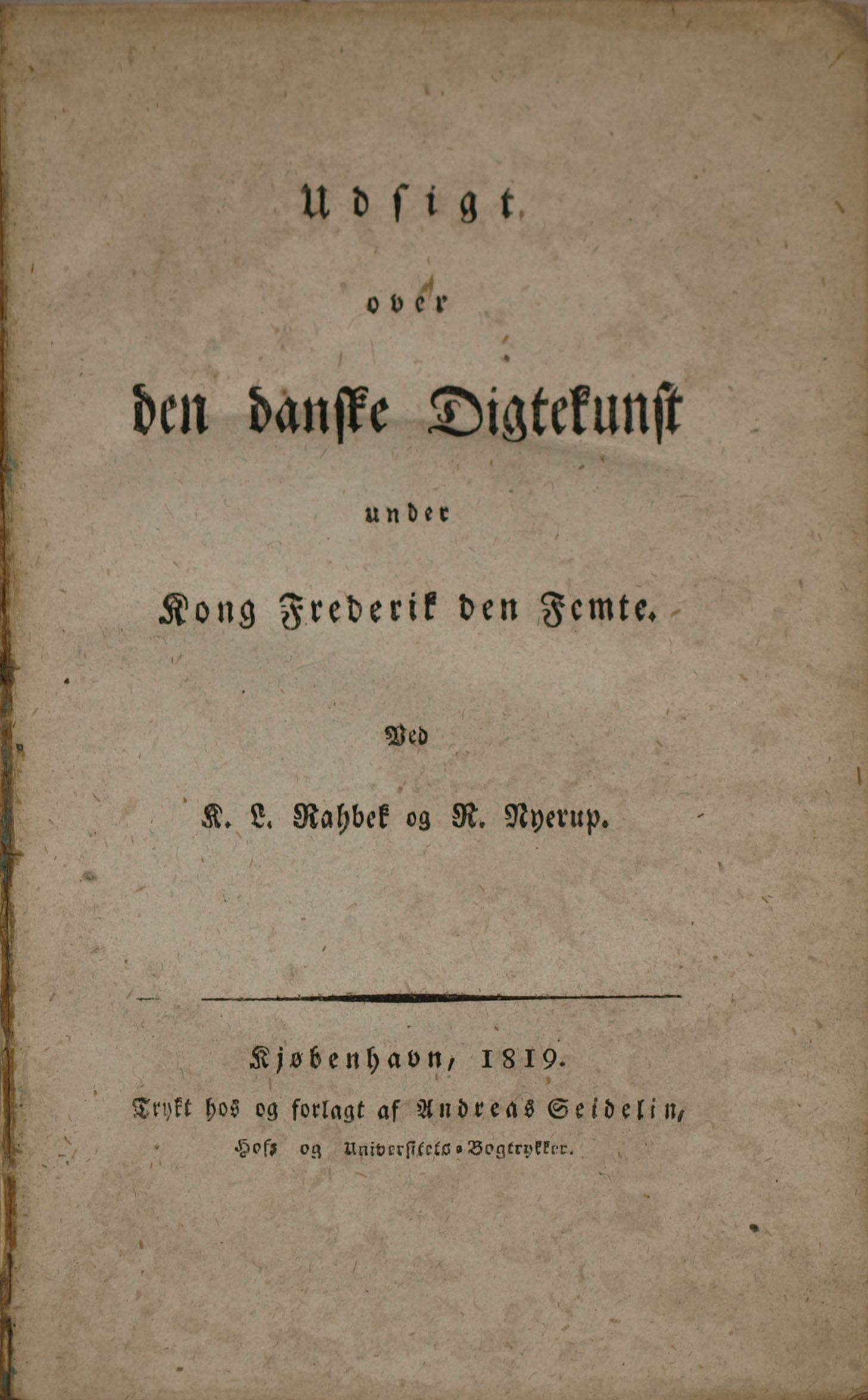 Knud Lyne Rahbeks og Rasmus Nyerups "Udsigt over den danske Digtekonst under kong Frederik den Femte" fra 1819.